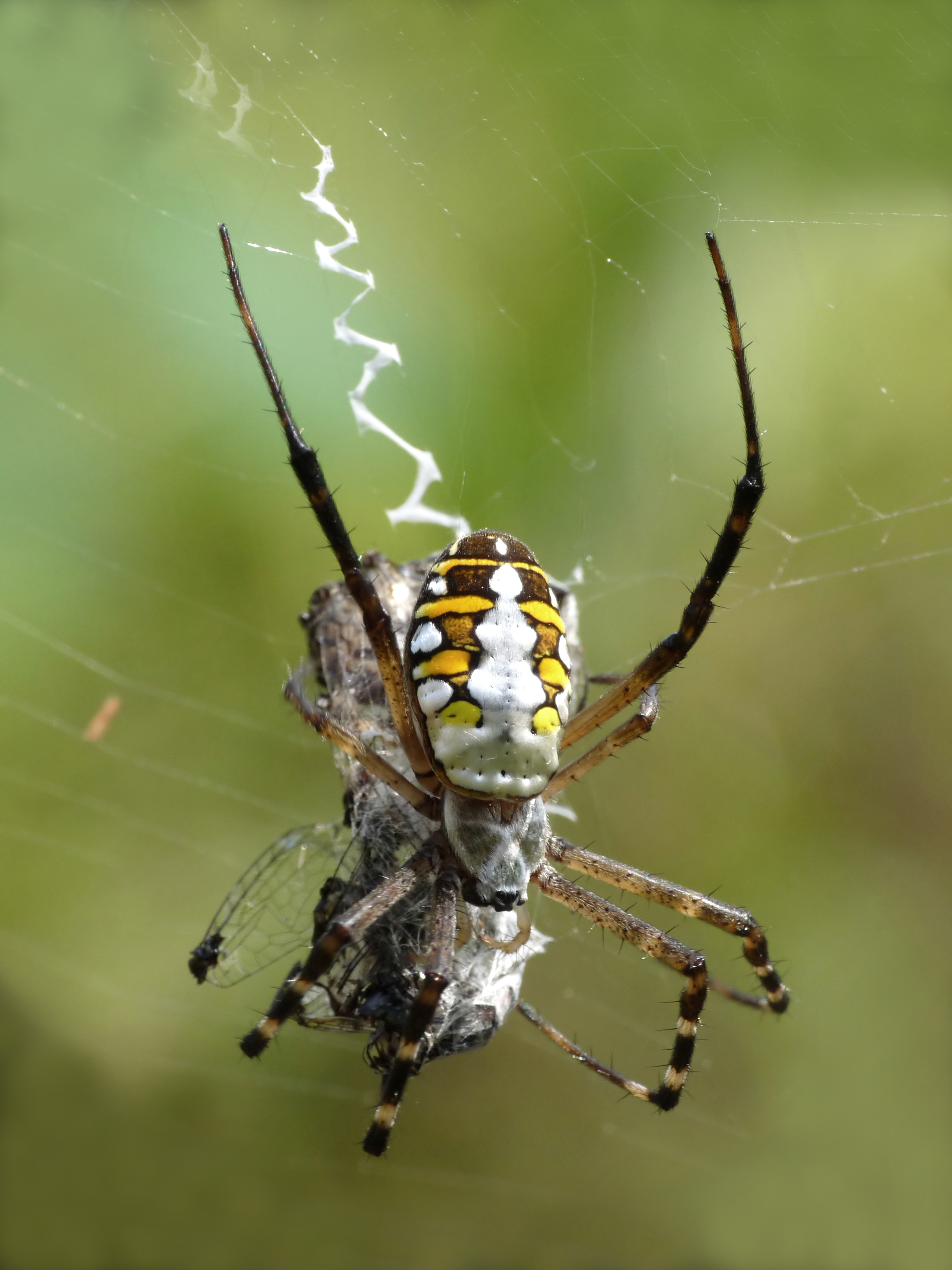 Argiope catenulata, also known as the Grass cross spider, is a species of Orb spider ranging from India to the Philippines to Papua New Guinea. Like other species of the same genus, it builds a web with a zig-zag stabilimentum. Argiope catenulata is a colorful spider. The female's cephalothorax is yellow with black eye margins. Its abdomen is oblong with a black and silvery-whitish yellow dorsal pattern. Brown patches of irregular shapes are present from the median of the opisthosoma (abdomen) to the posterior side. The legs are black with thin white rings. The male is smaller than the female. It has a brownish red to yellowish brown cephalothorax with black eye margins. Its abdomen is yellowish with a dorsal pattern as in the female. The legs are yellowish brown. They are web builders, the circular webs have zigzag webbing known as white stabilimenta making them sticky. They are common in all rice environments. They are late colonizers of rice fields and are found with their heads hanging down in their webs.